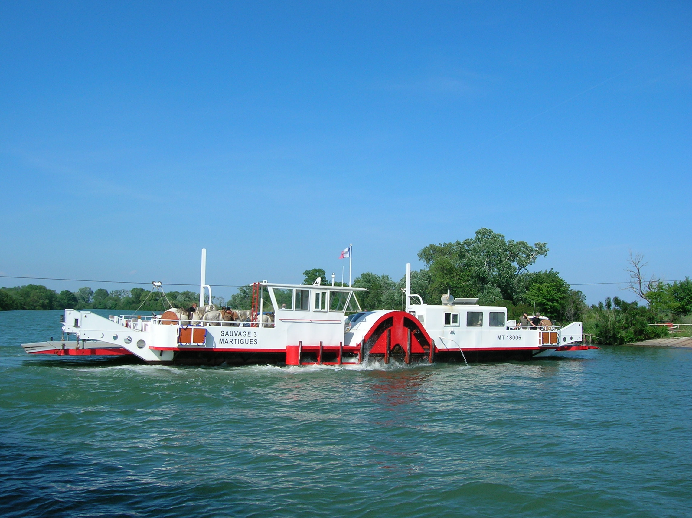 Barge used to cross a canal in Camargue (France).